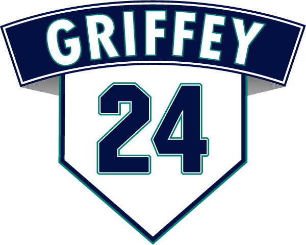 Griffey's Number displayed as it is at Safeco Field.